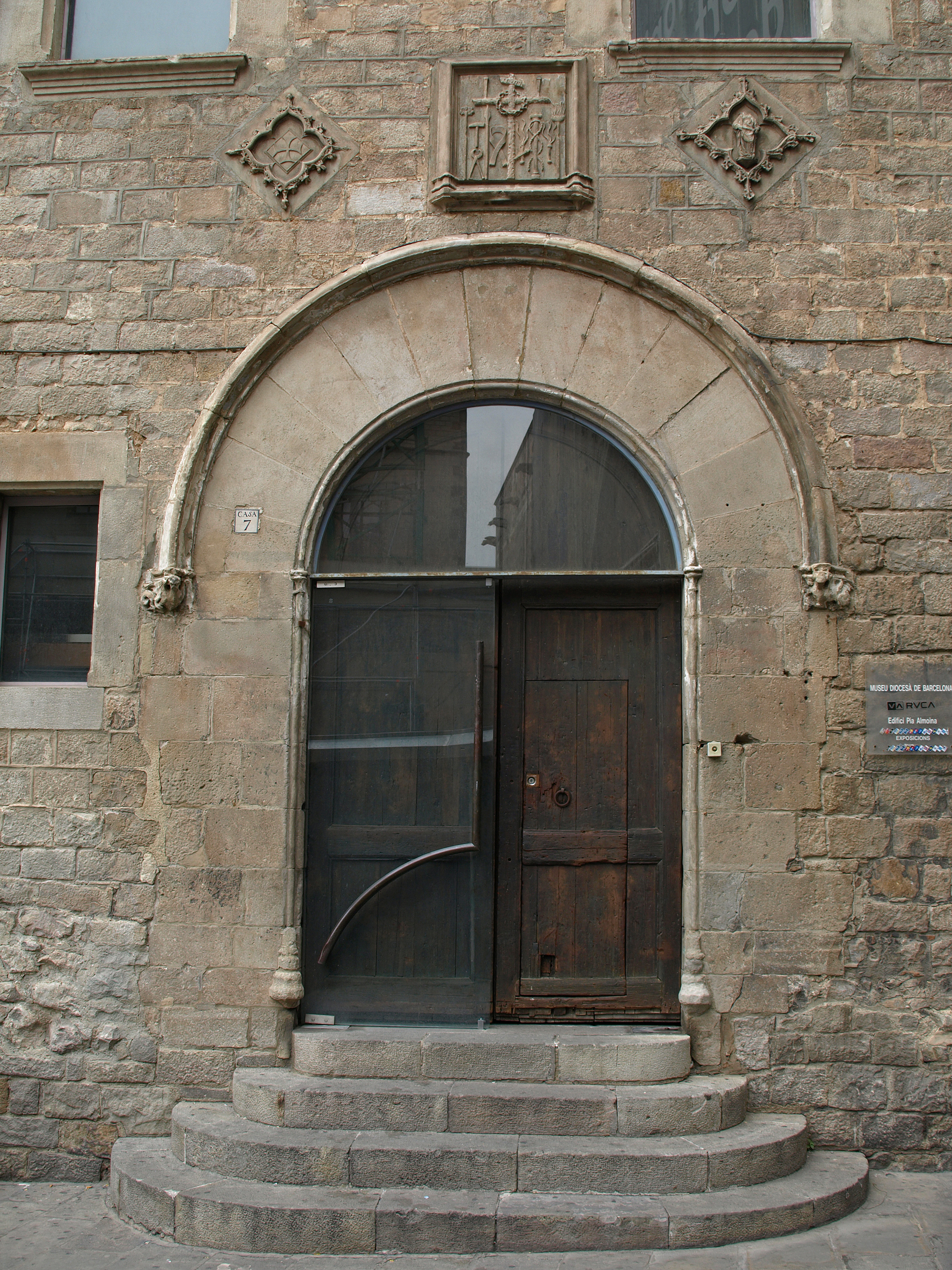 Diocesan Museum of Barcelona (Spain)